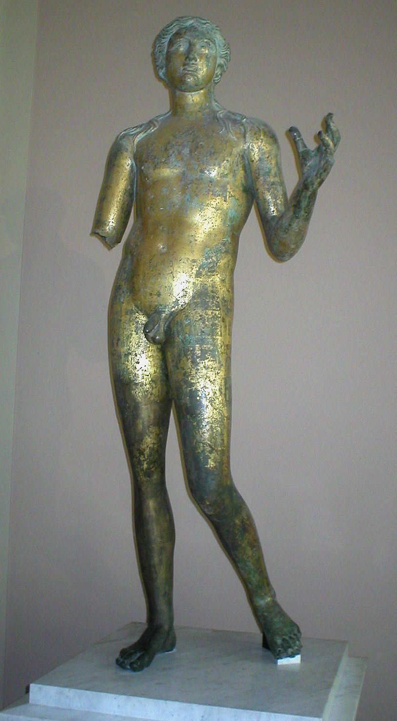 Apollon. Gilt bronze, Roman-Gallic artwork, 2nd century CE. Found in 1823 at Lillebonne, Normandy, near an antique theatre.